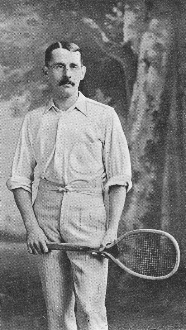 Ernest George Meers (1848-1928), English tennis player.